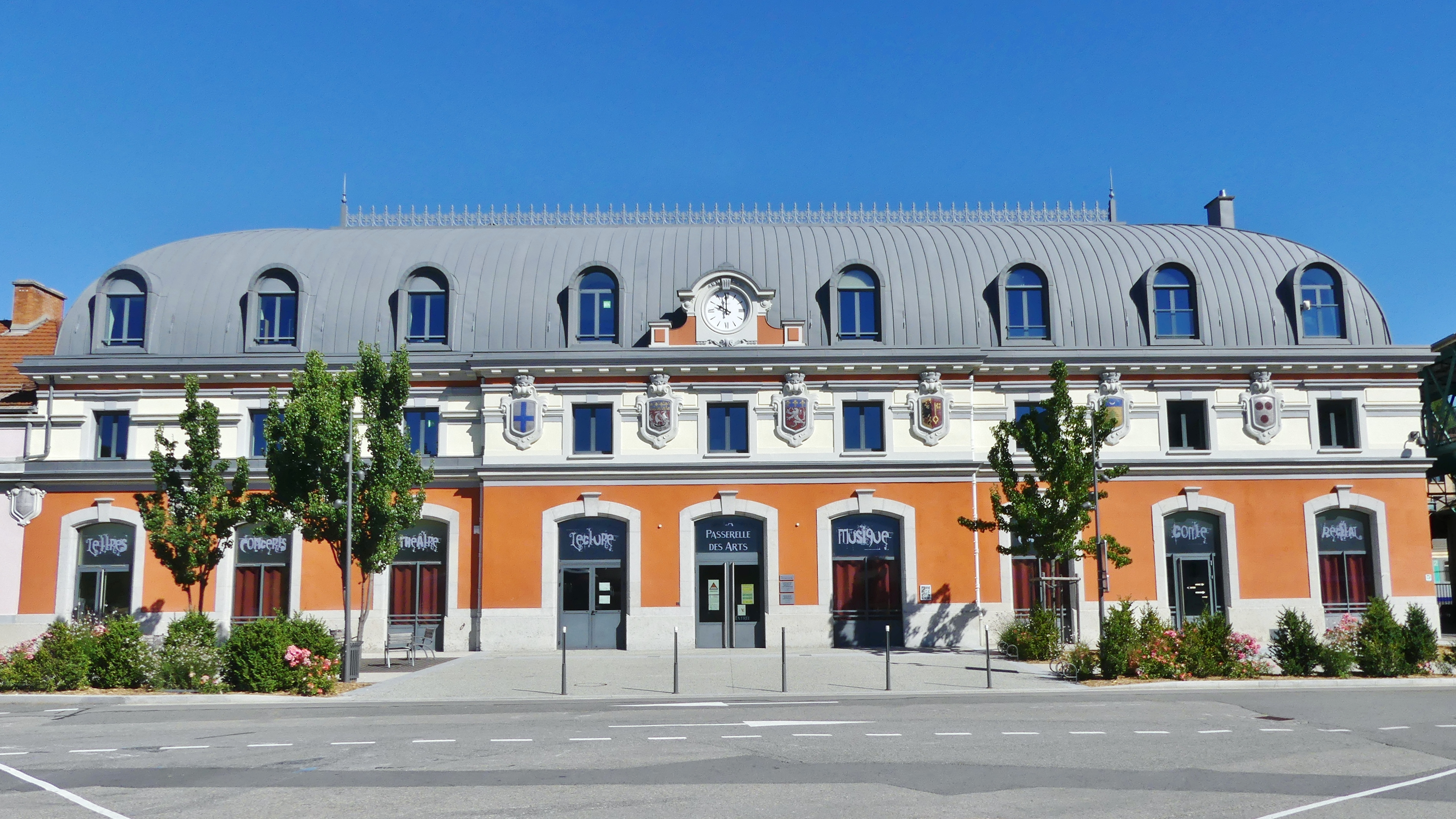 Sight of historical building of Bellegarde railway station, in Ain, France. After the construction of a new building, this one was restored to become a cultural building.